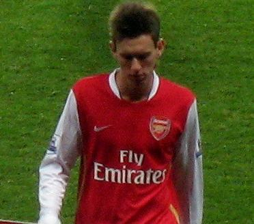 Mark Randall